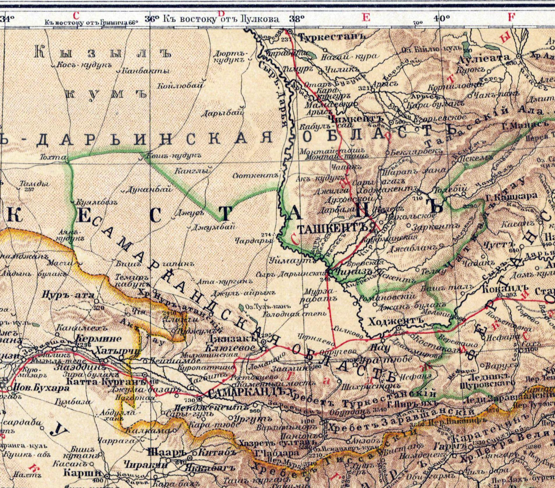 Map of Samarkand Oblast (Russian Empire)